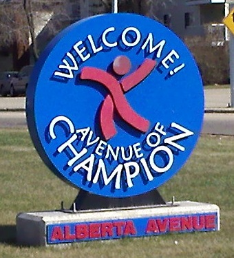 Alberta Avenue welcome sign at 101 Street & 118 Avenue, Edmonton. Sorry, its missing the 'S'.